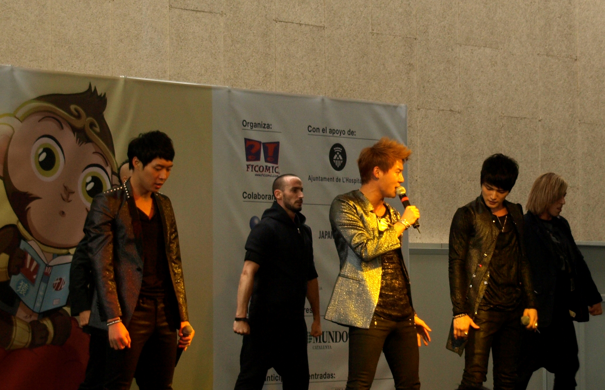 JYJ is a three member pop group, formed by three former members of the South Korean boyband TVXQ: Jaejoong, Yoochun and Junsu.